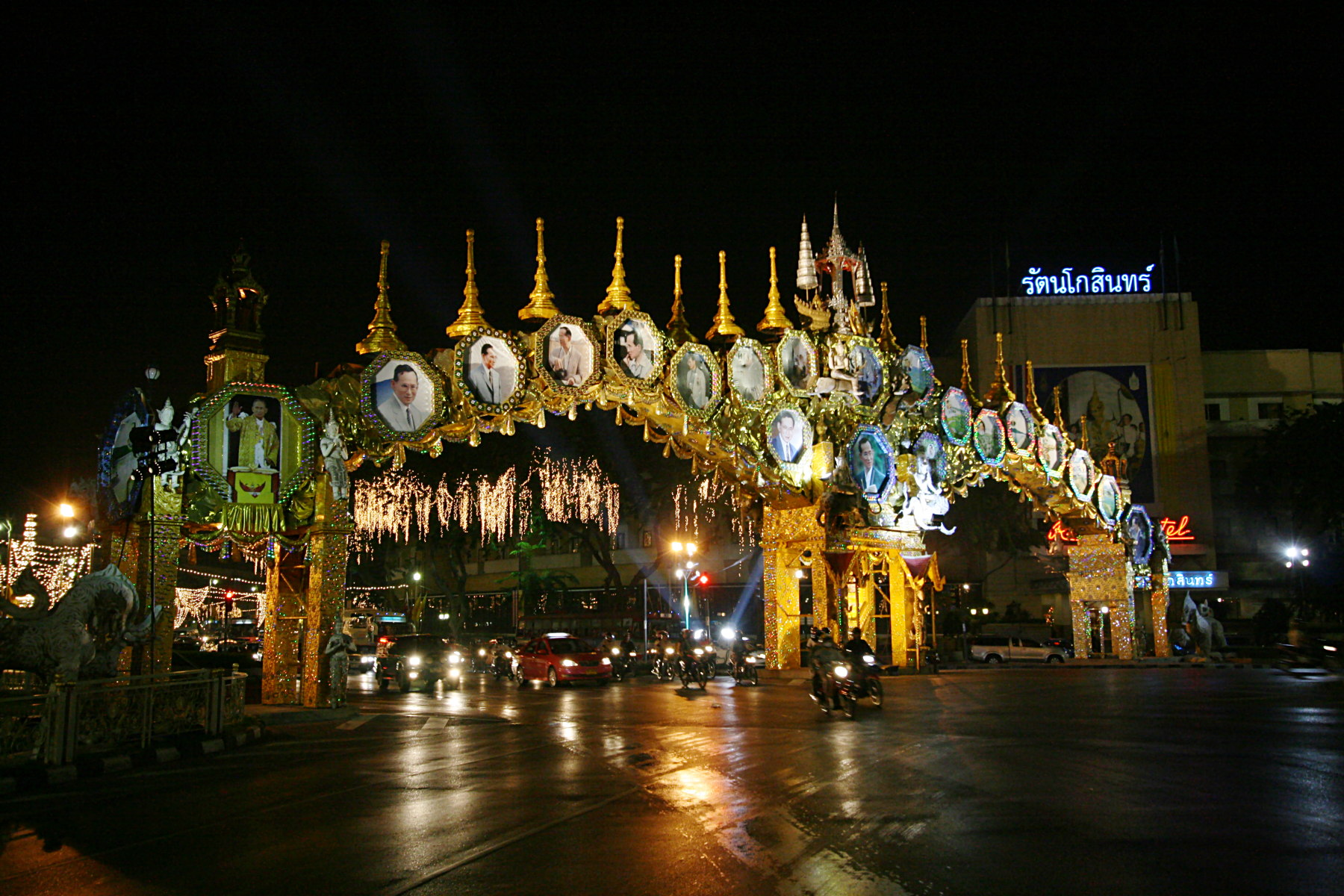 Arch celebrating King Bhumibol's 80th birthday on Ratchadamnoen Road, Phra Nakhon, Bangkok.